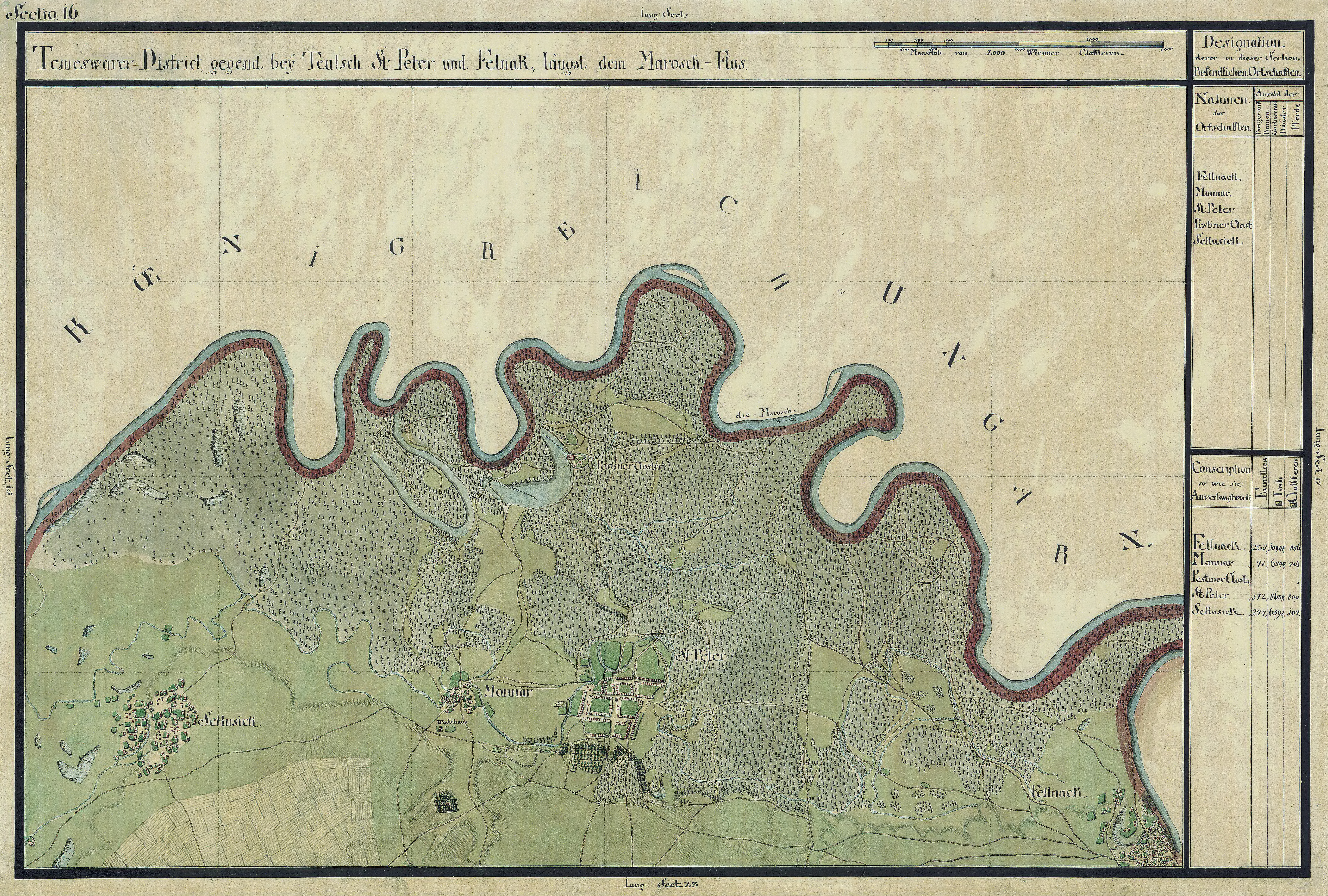 The Banat region in the cadastral maps: Josephinische Landesaufnahme, 1769-72. Josephinische Landaufnahme pg016